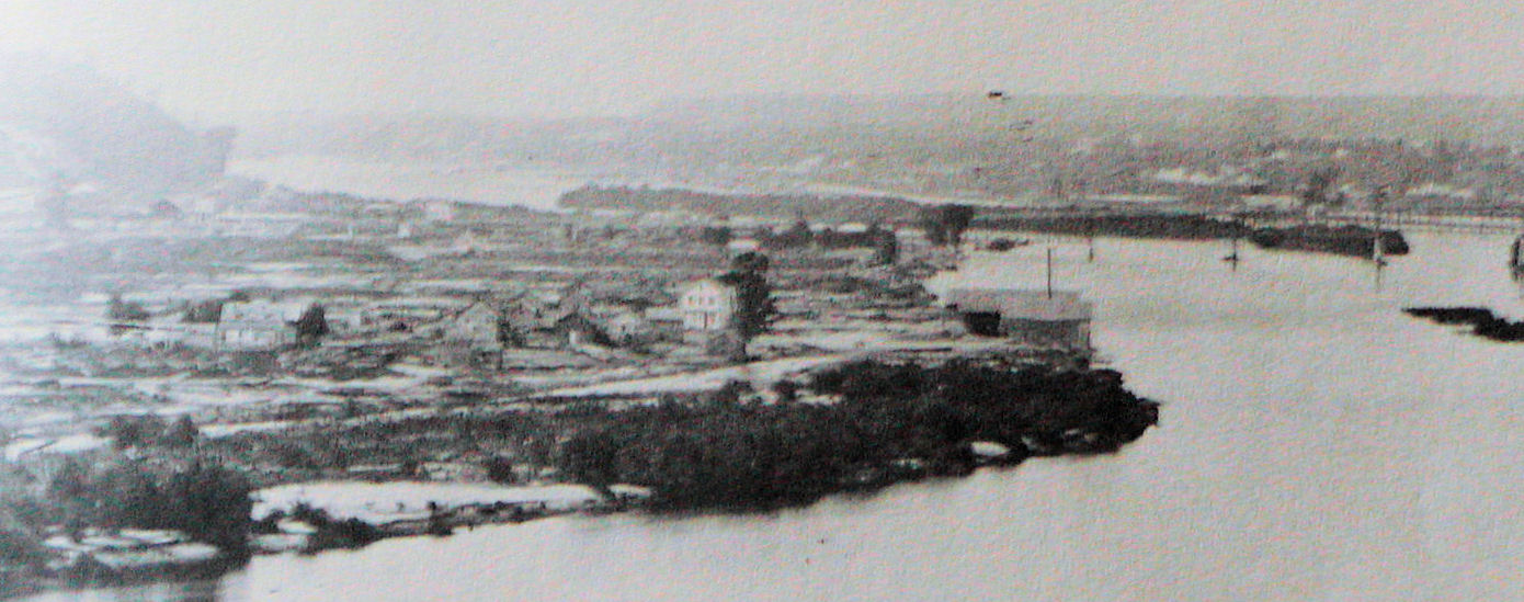 Saint Paul, Minnesota's West Side neighborhood, shown here in 1869